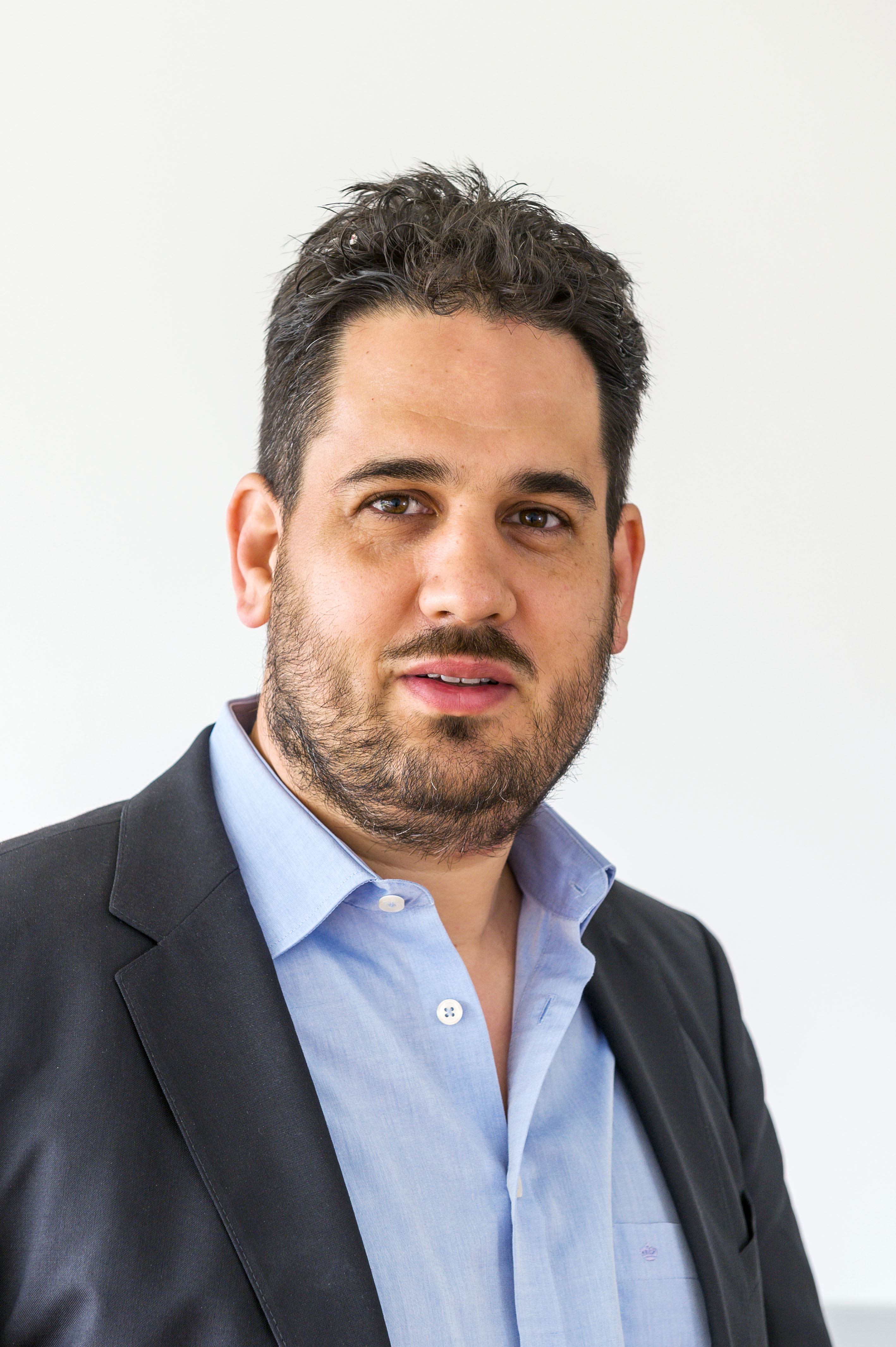 Philippe Wampfler is a teacher at Kantonsschule Enge, Zurich. He is also an expert in digital education. Fotograph by Florian Bachmann